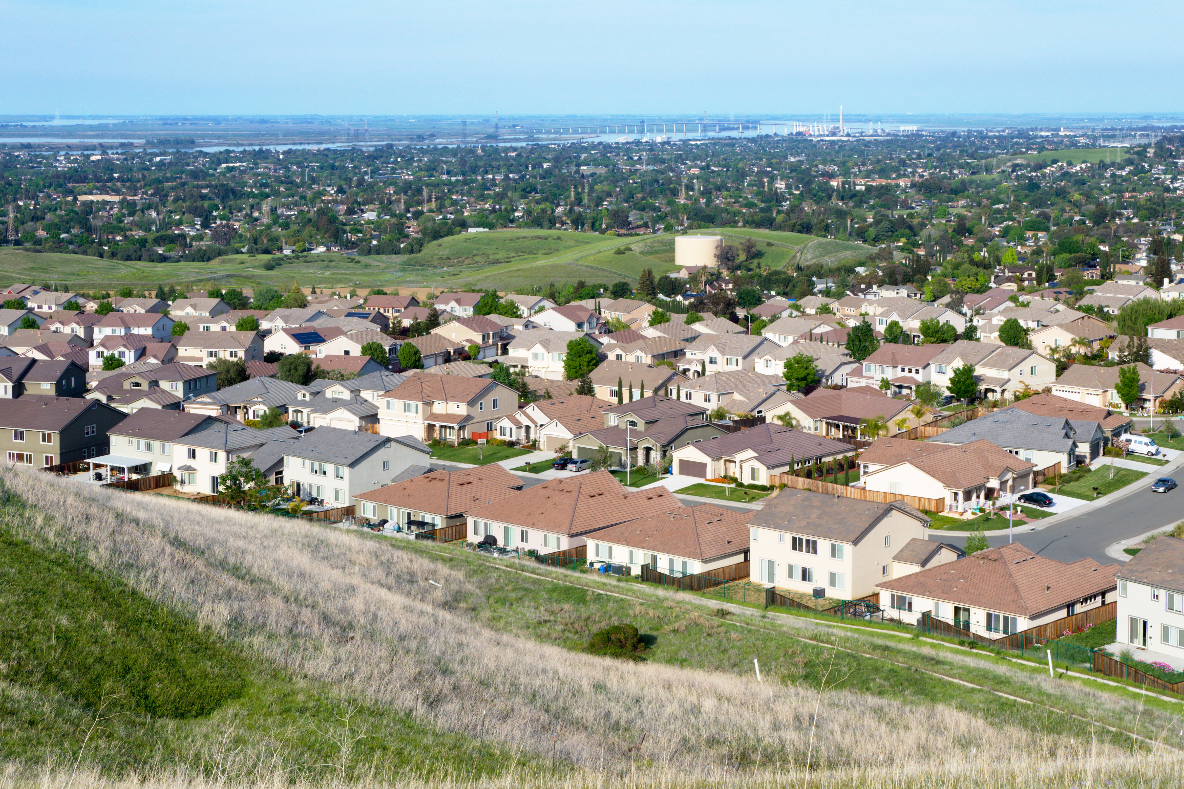 View of Antioch, California from Black Diamond Mines Regional Preserve. The Antioch Bridge on the San Joaquin River is visible in the background.